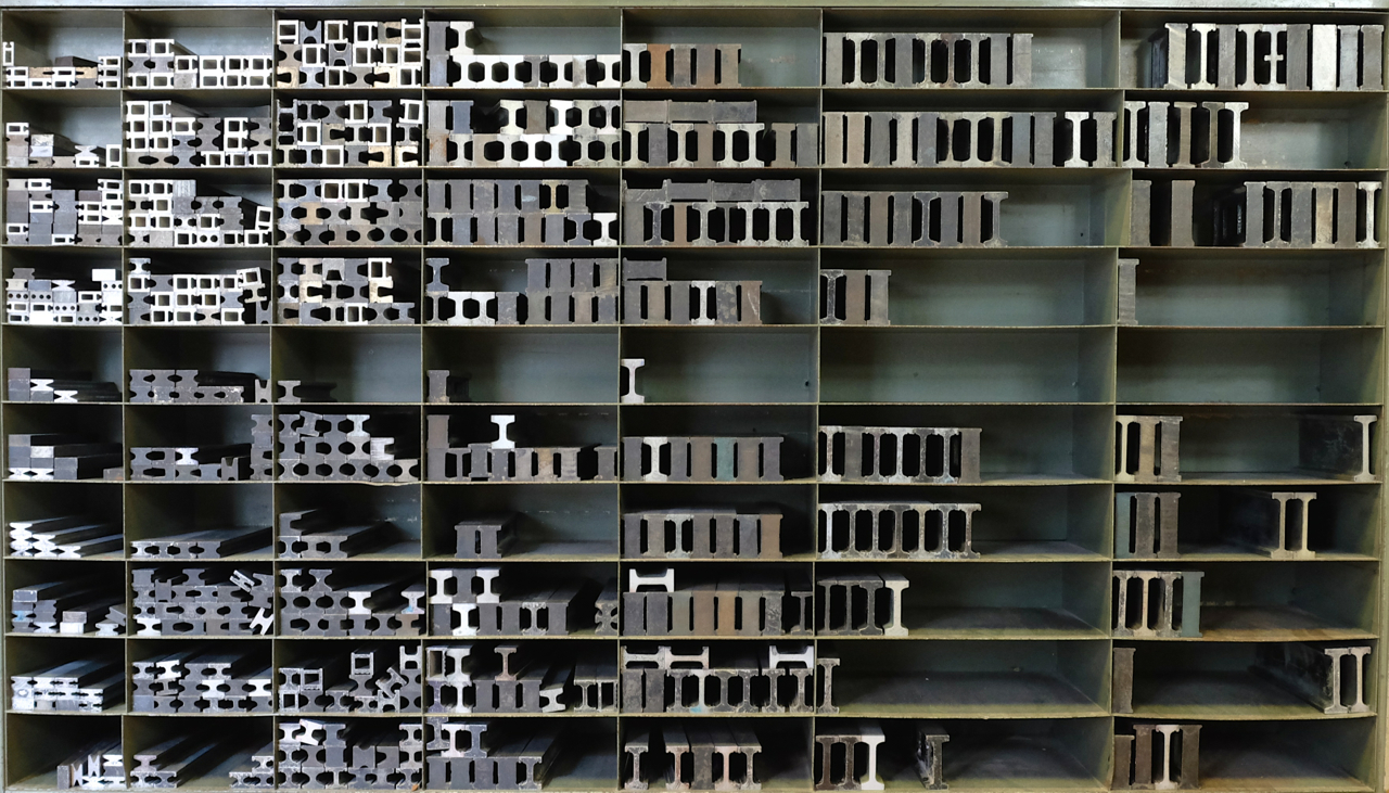 Slugs in the Basel Paper Mill